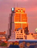 United Overseas Bank headquarters (formerly the Bank of Thailand headquarters, and commonly known as the Robot Building), Bangkok, Thailand